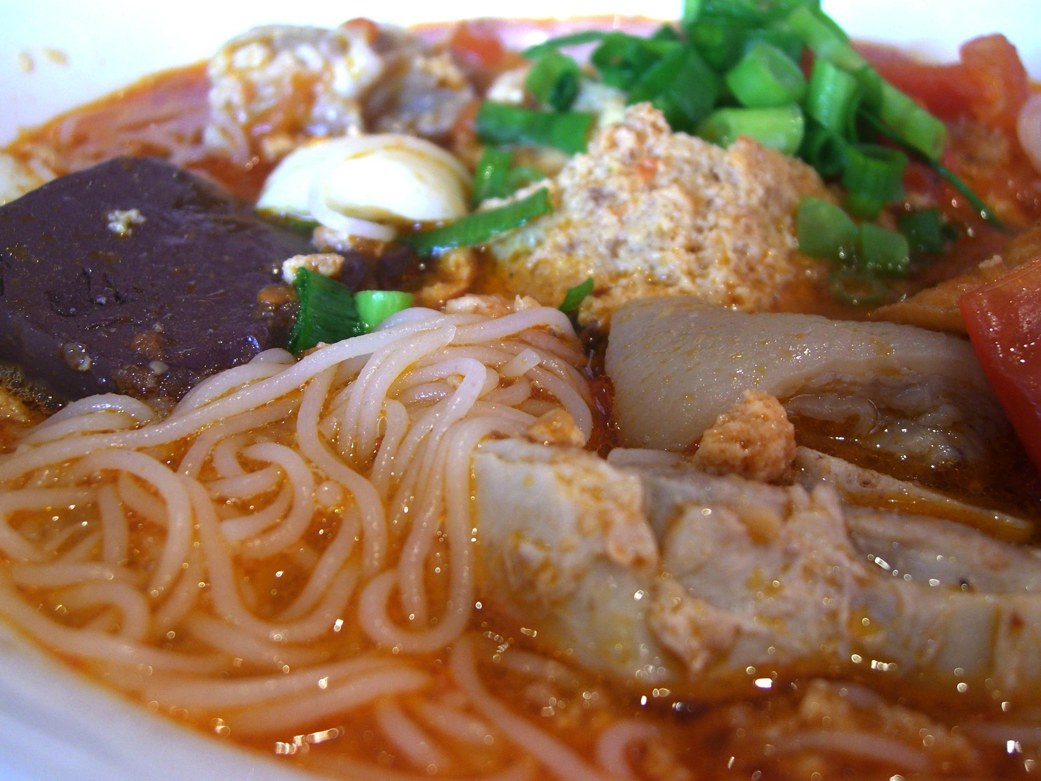 The Bún riêu at Dakao Hoang was very good. The rich crabby broth was lovely, if a little fishy, filled with a spongey egg custard with more crab flavour. The pork leg at Dakao Hoang has always tasted of real pork and so it was today. We wondered why it took so long for this bowl of Bún riêu to appear, and perhaps it wsa because they were deep frying the silky soft tofu included in the bowl. Also in the bowl was a thick slice of slippery pork blood with the metallic taste I love and when just cooked like this was, slippery and silky in texture. Dakao Hoang 17 Balmoral Ave Springvale 3171 (03) 9558 5996